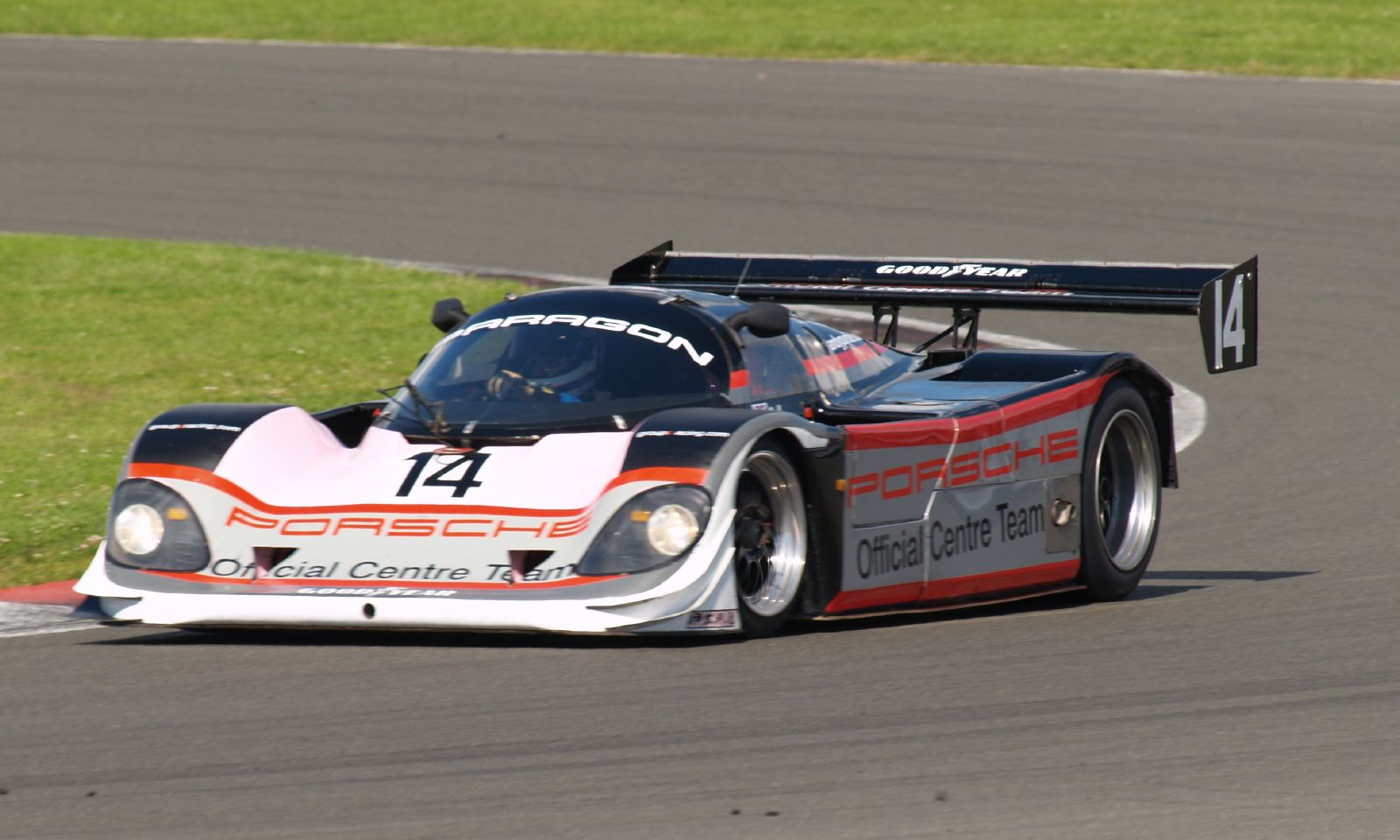 A Porsche 962C at the Silverstone Classic